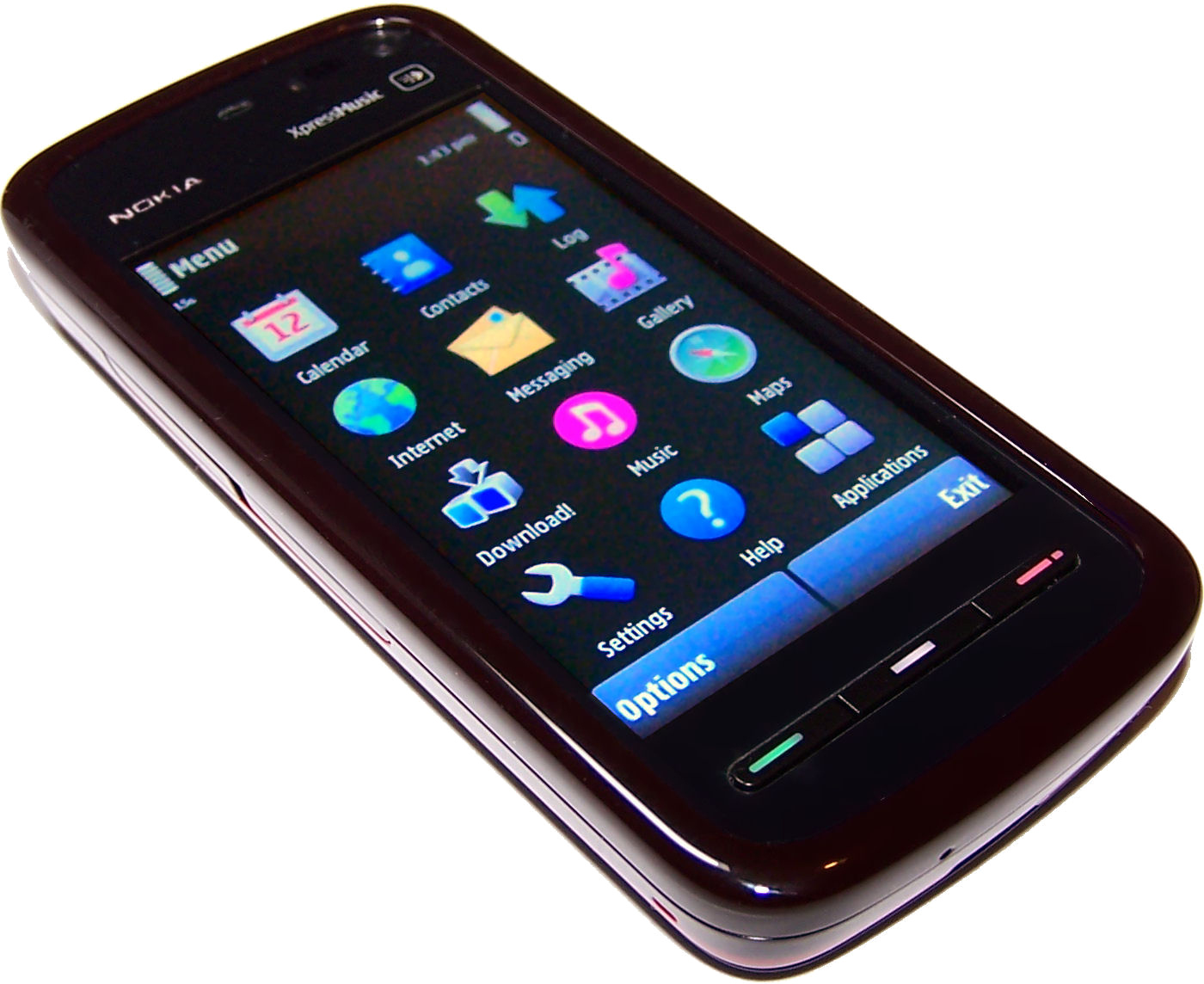 Nokia 5800 XpressMusic Three-Quarters Shot